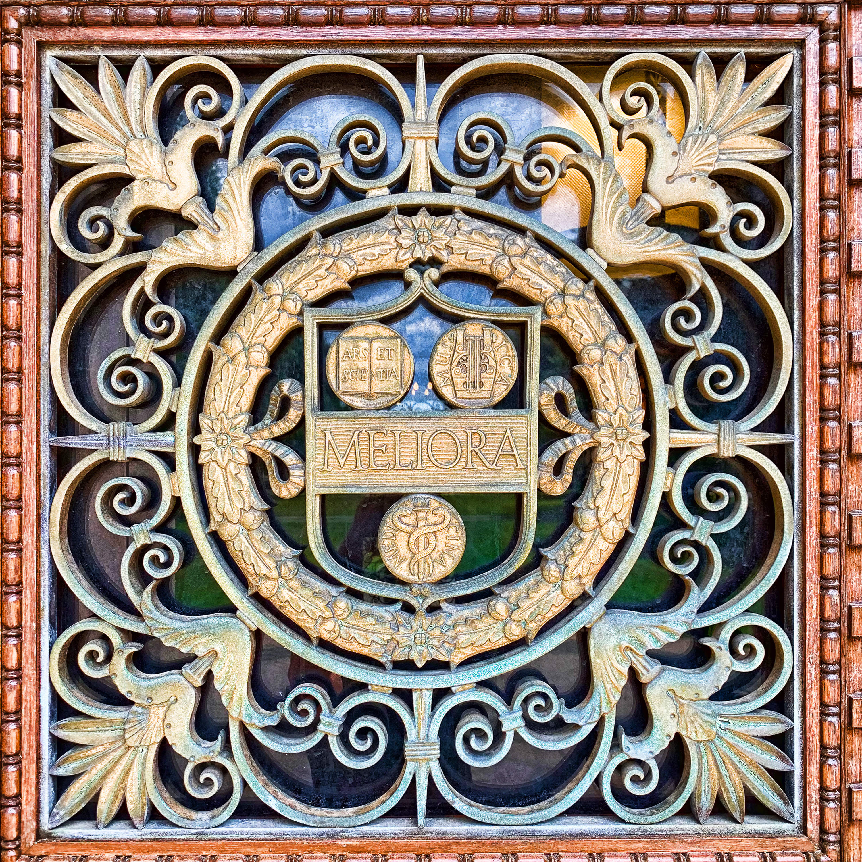 Meliora: motto of the University of Rochester appears on the gates of the Rush Rhees Library.